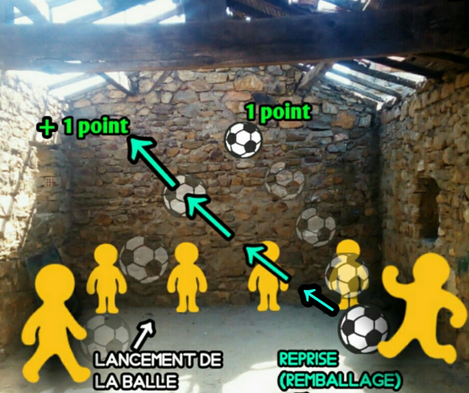 Game of "remballage" in Imezdaten village